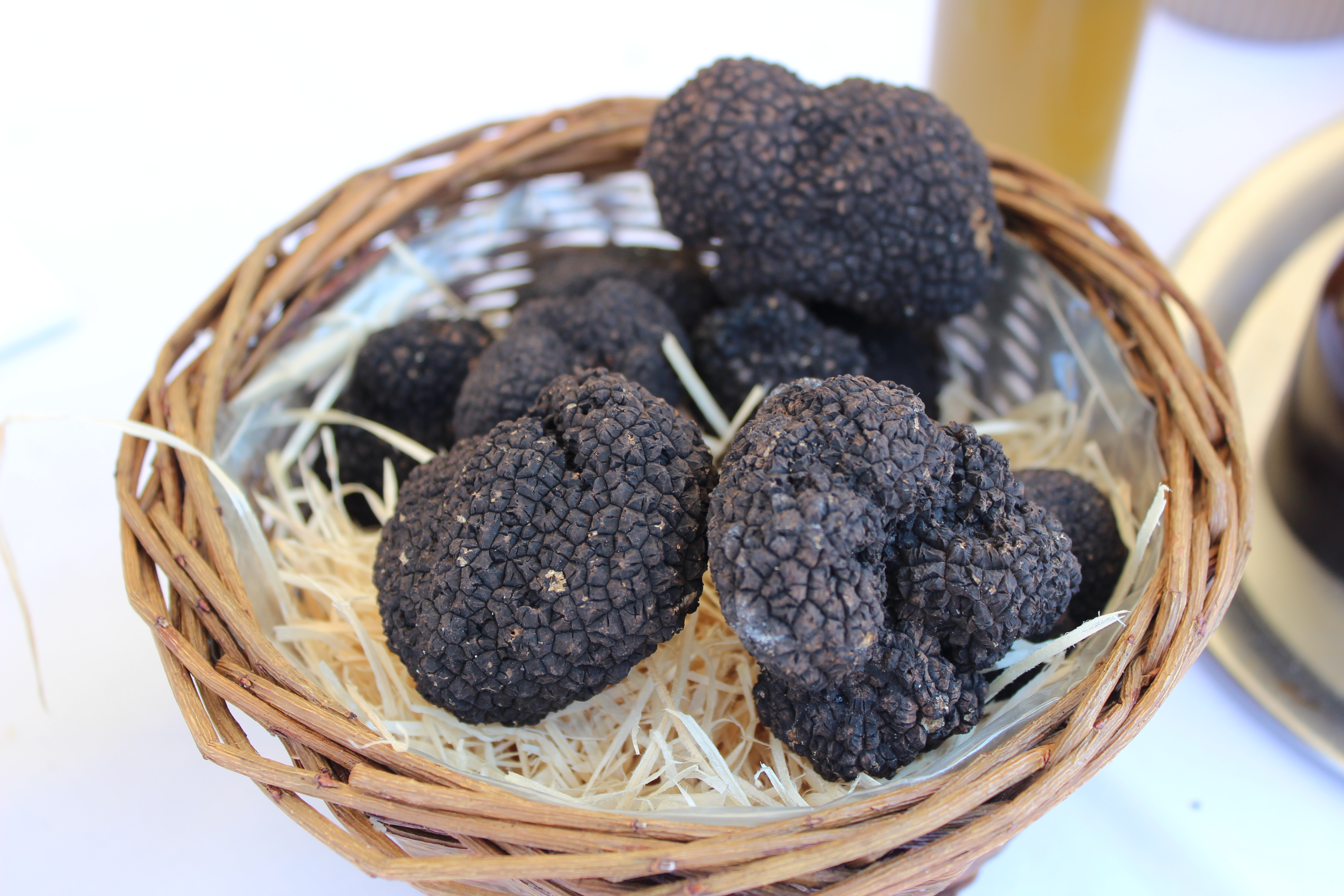 Truffles